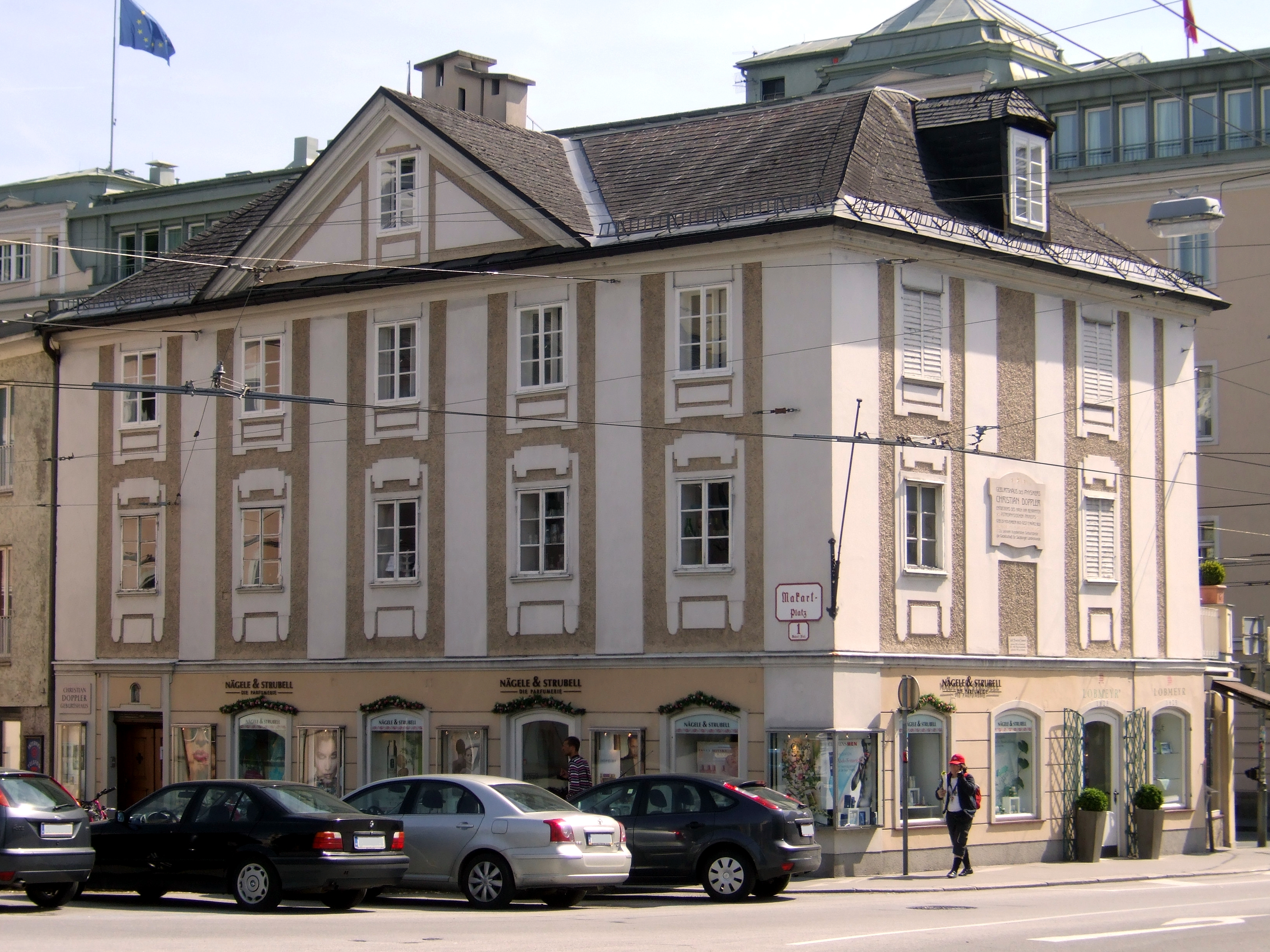 Christian Doppler's (1803–1853) birthplace: Makartplatz 1 (Salzburg). Doppler was born on the 2nd floor of the building. Today the site of the Christian Doppler Research and Memorial Site